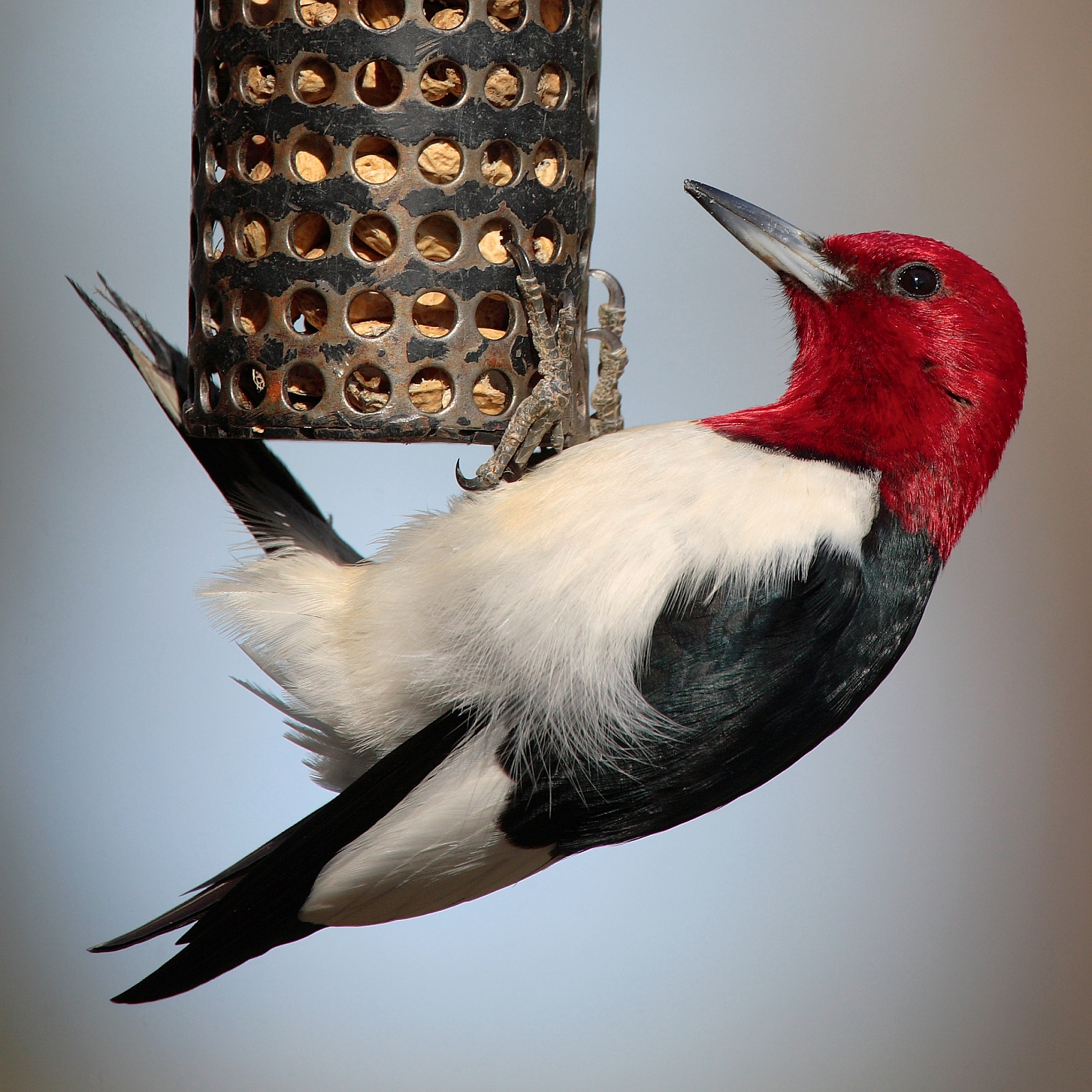 Red-headed Woodpecker (Melanerpes erythrocephalus). Canada Rondeau Provincial Park, Ontario, Canada. Image collected at the feeders behind the Visitor Centre.